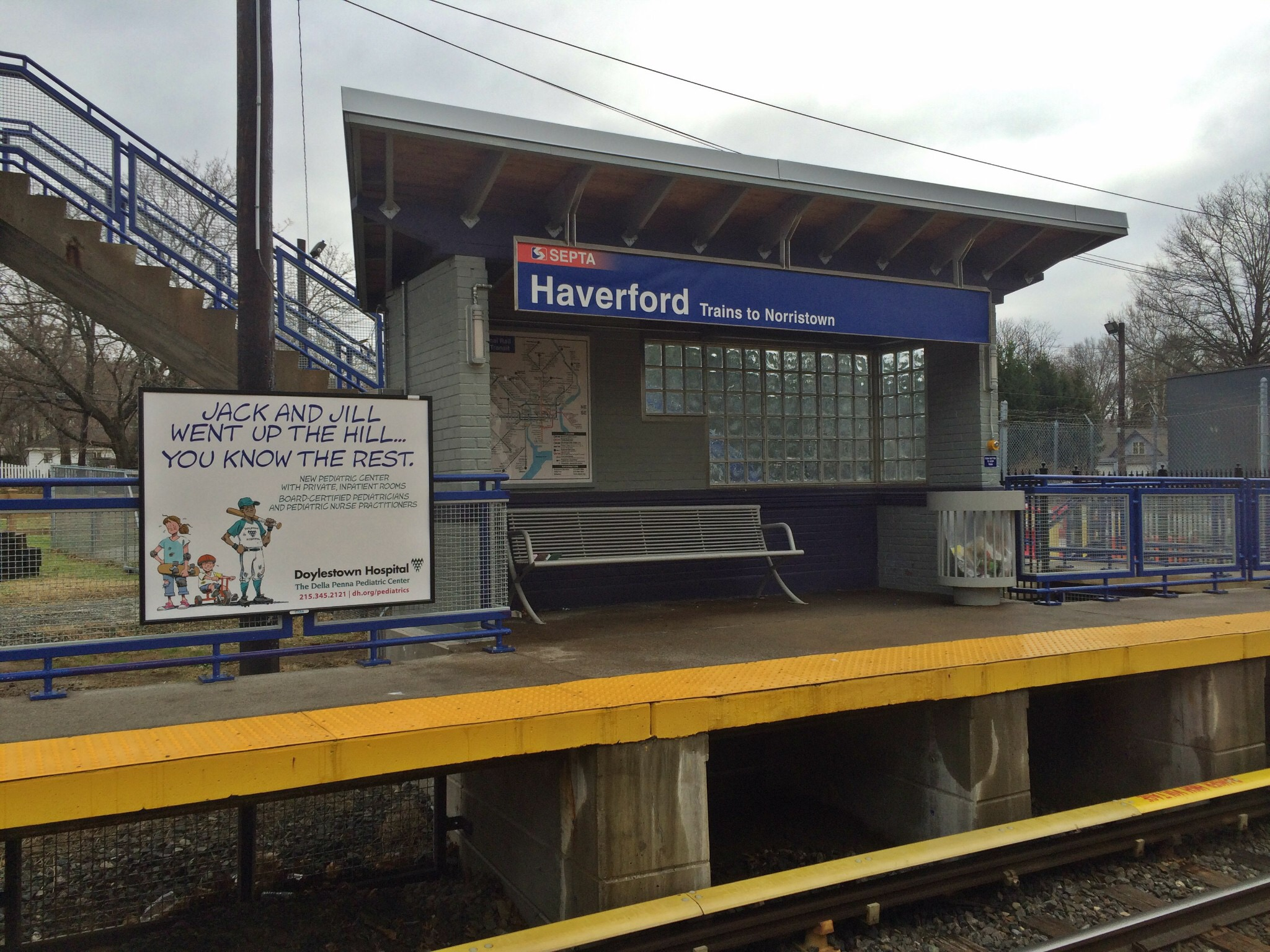 Haverford Station Northbound platform. (NHSL)